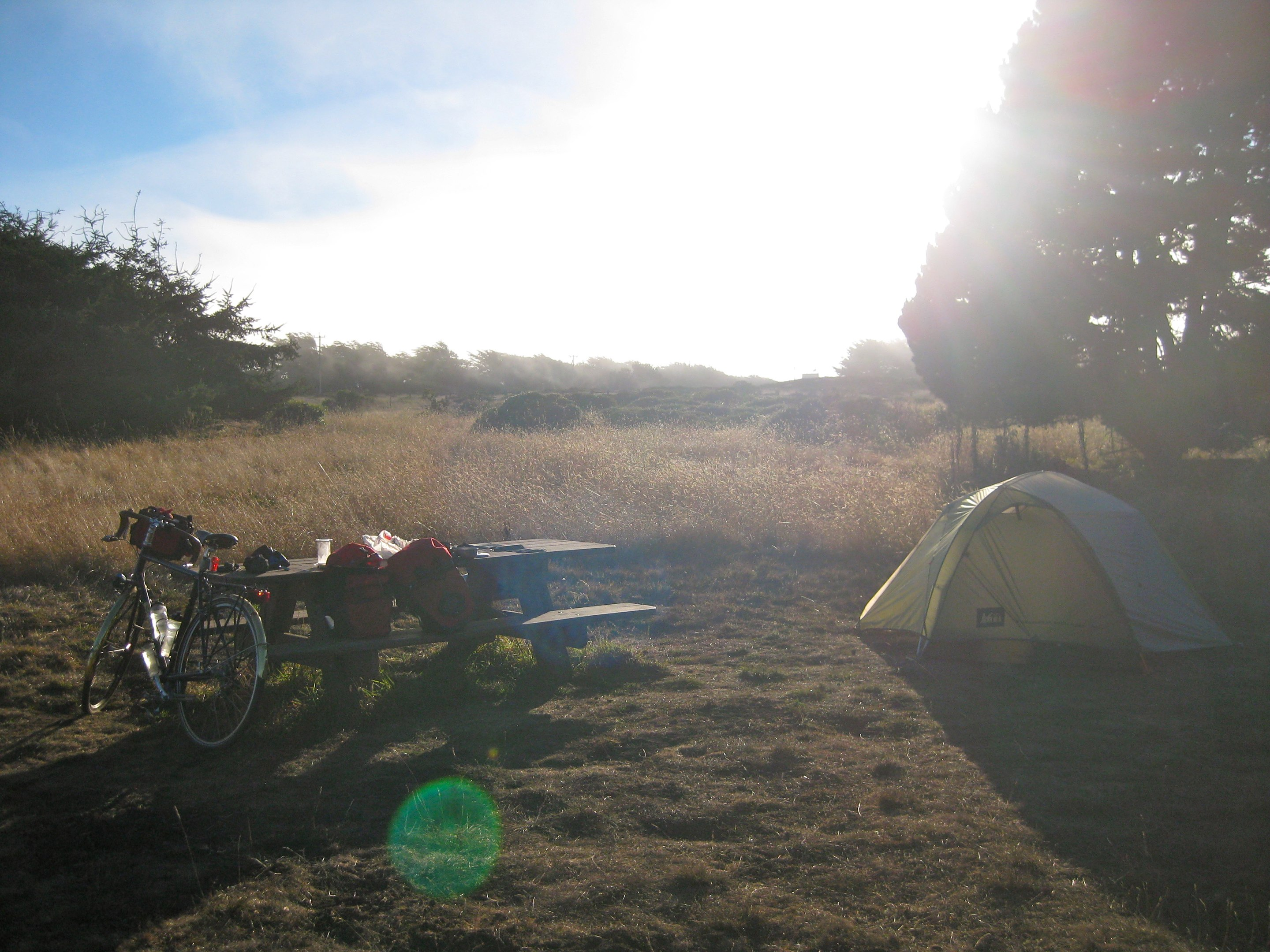 Manchester State Park Campsite